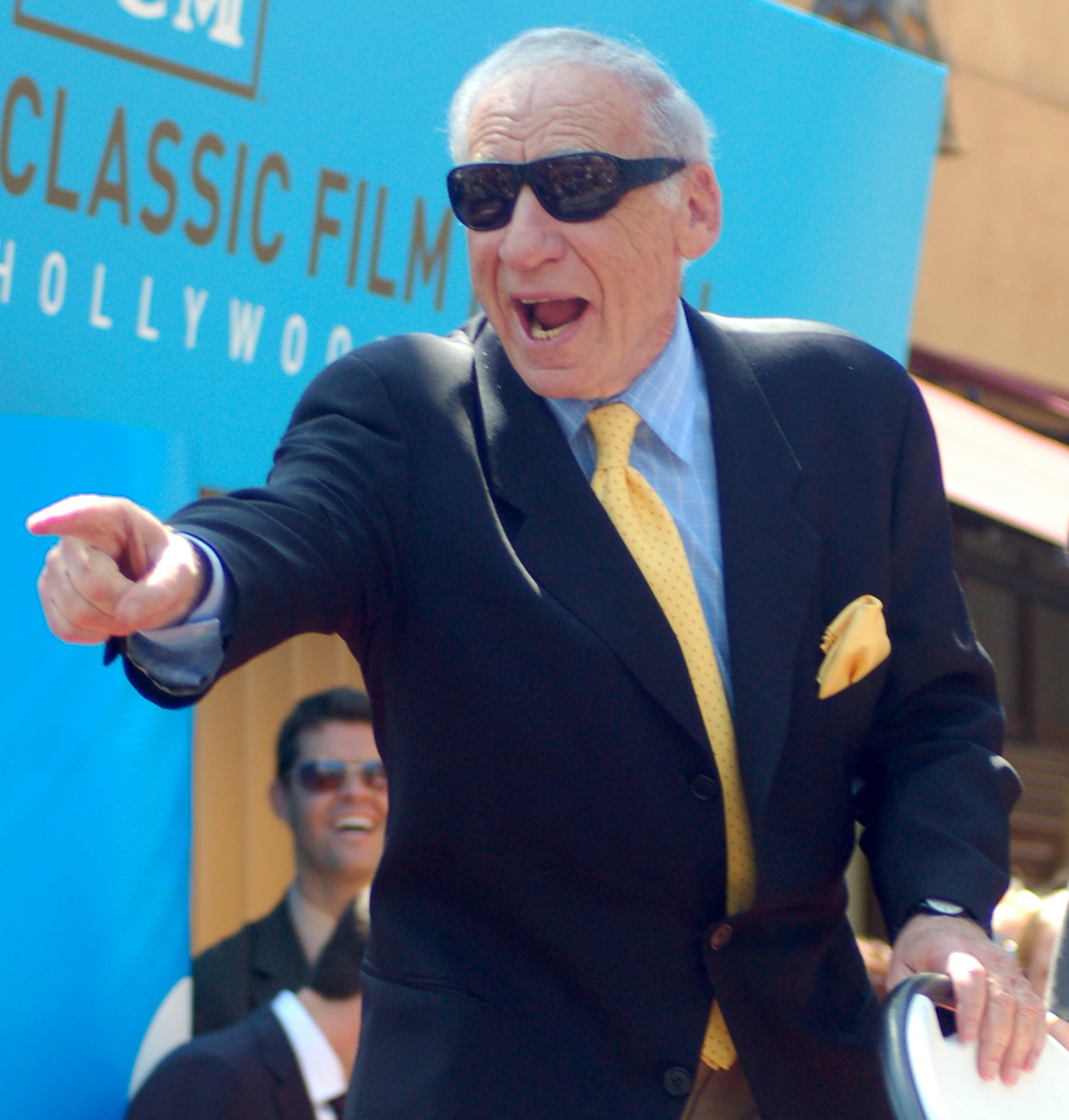 Mel Brooks attending a ceremony to receive a star on the Hollywood Walk of Fame.